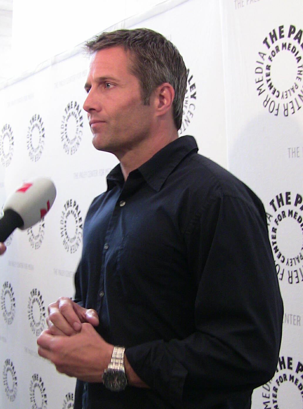 Actor Rob Estes at 90210 Paley Fest. William S. Paley Center, Beverly Hills, California